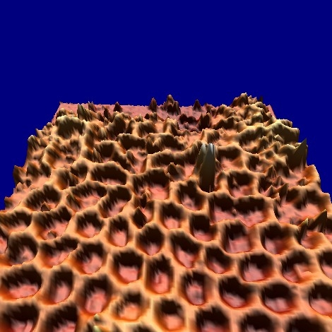 3D Nanomesh